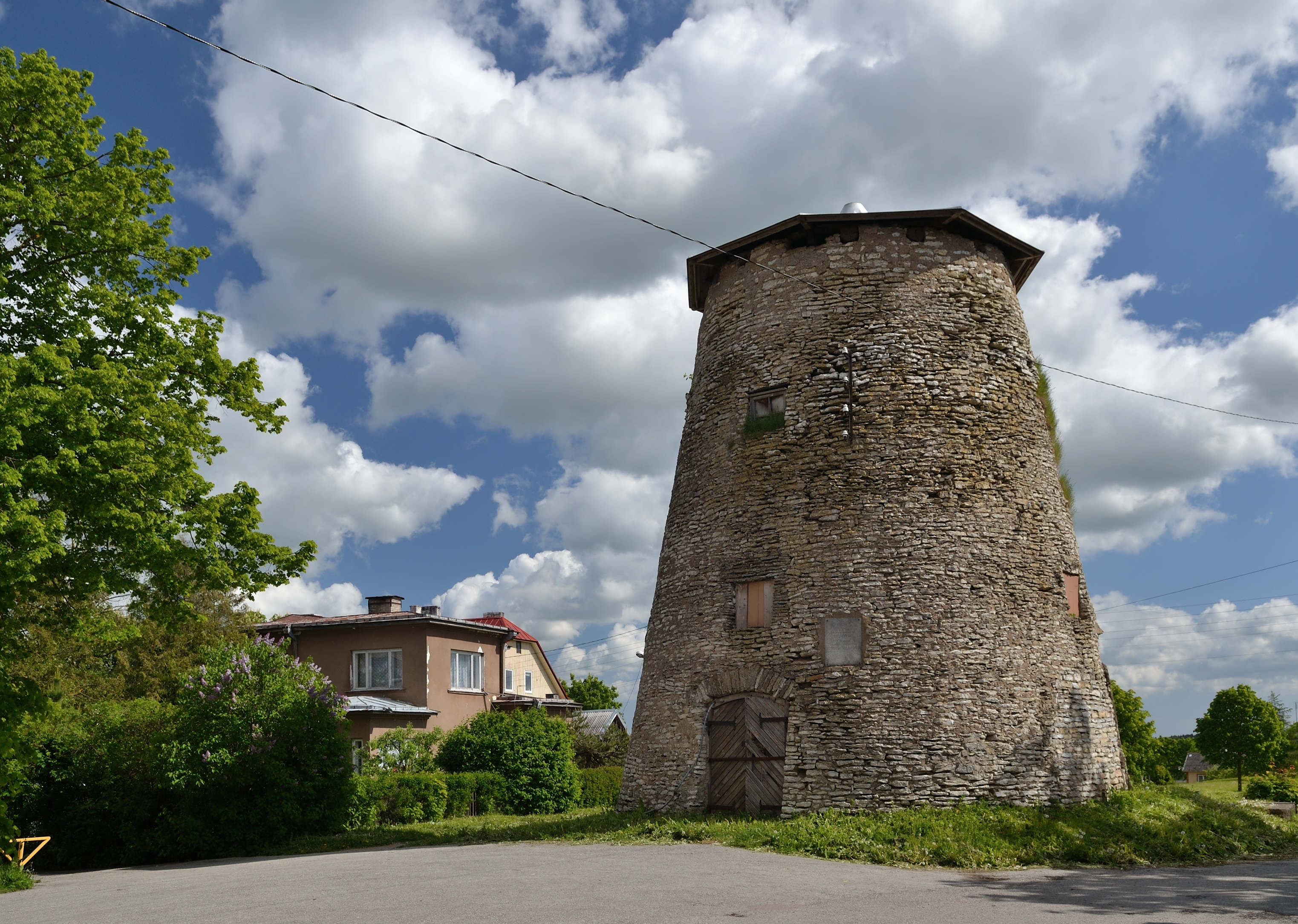 Rakvere windmill, built in the first half of 19. century